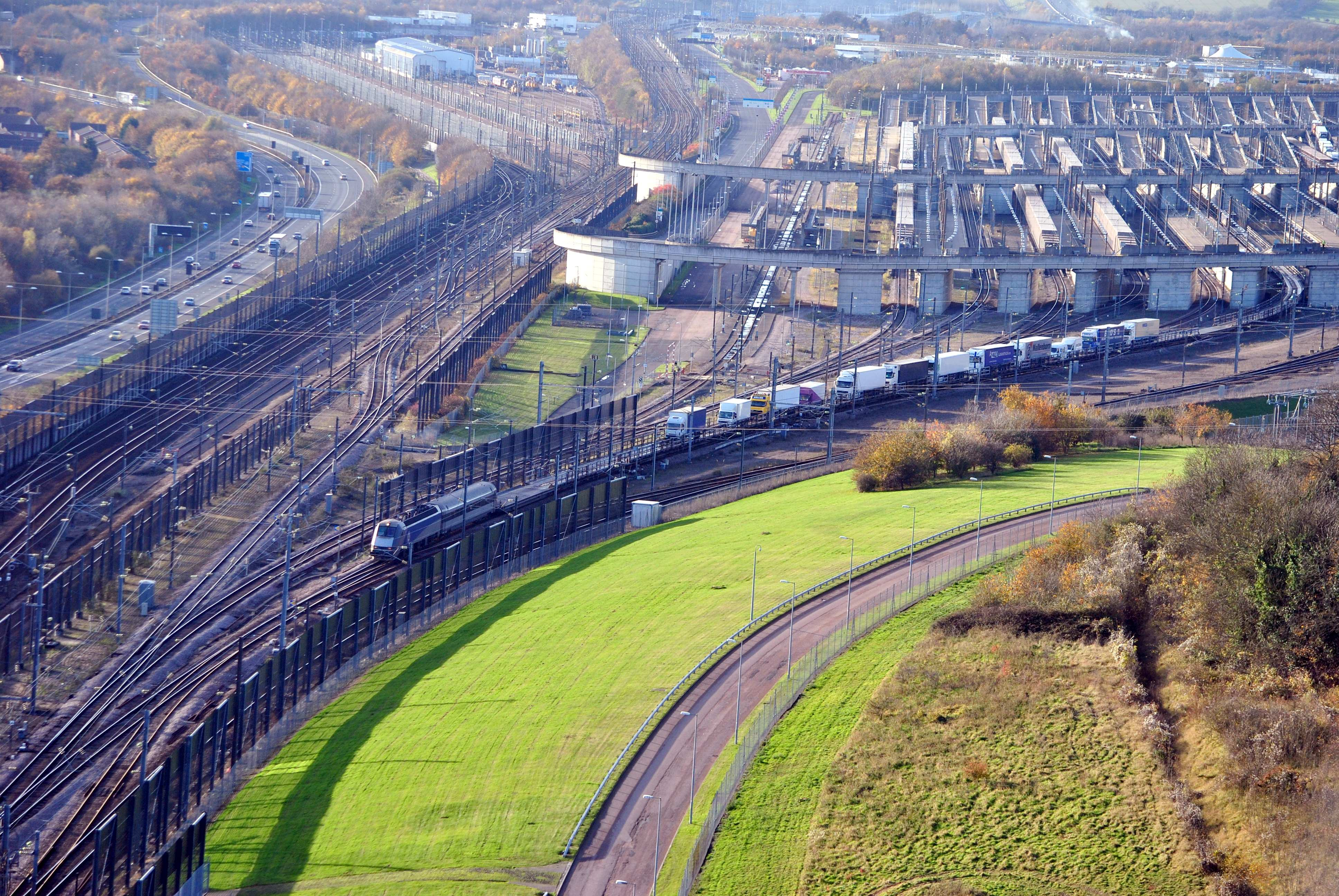 Eurotunnel shuttle leaving the terminal near Folkestone.